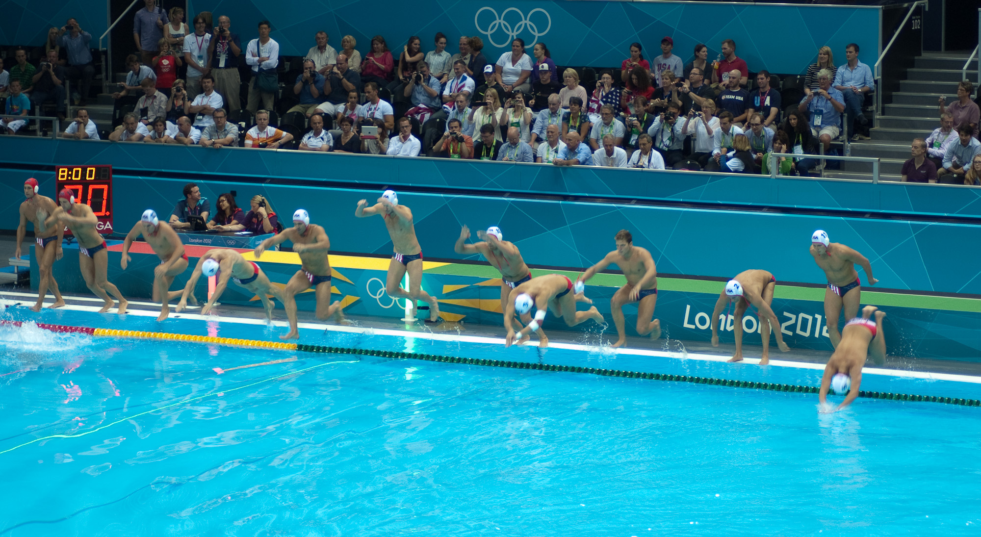 USA team dive in